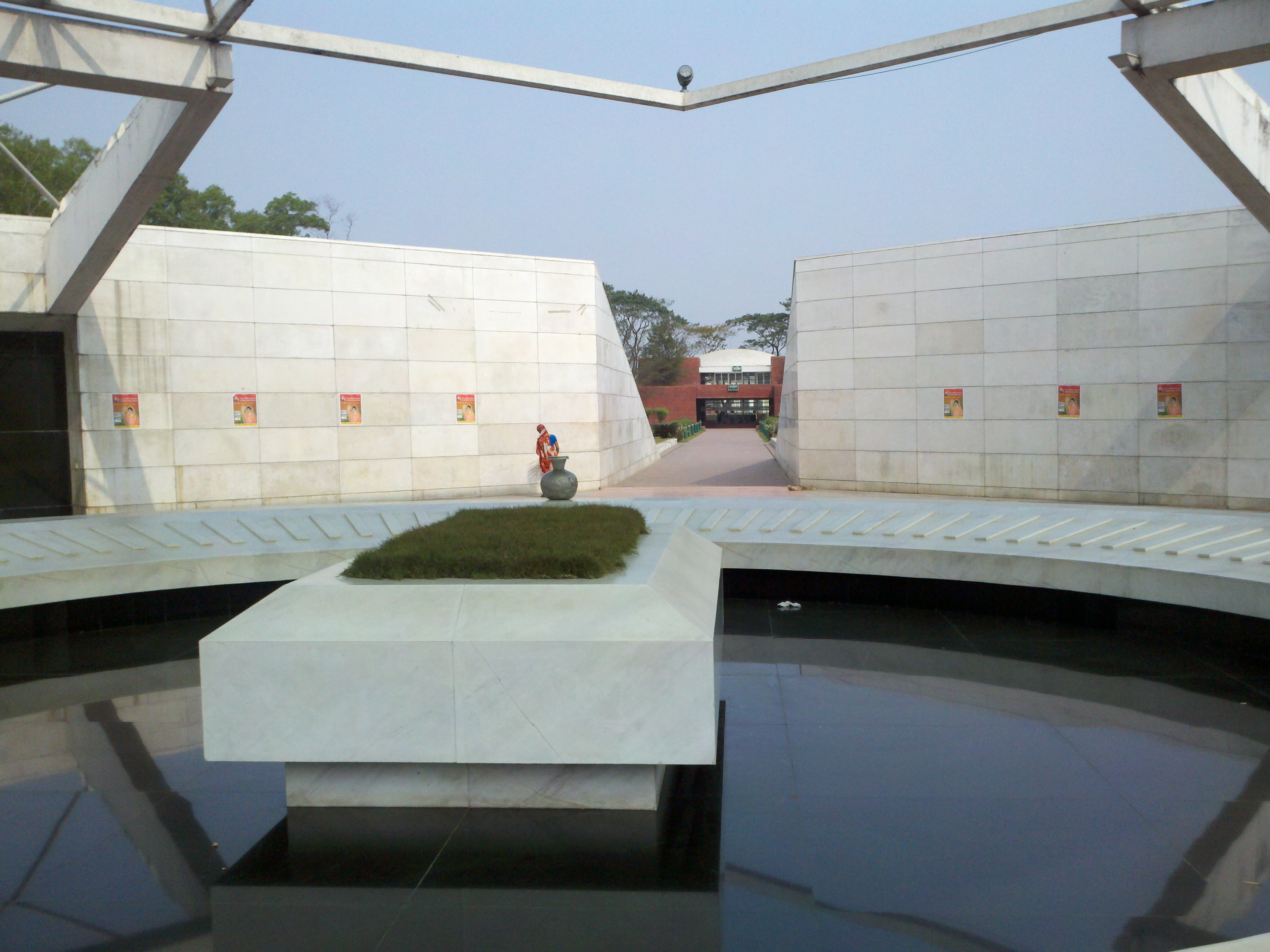 Mausoleum of late Bangladeshi President Ziaur Rahman in Dhaka.